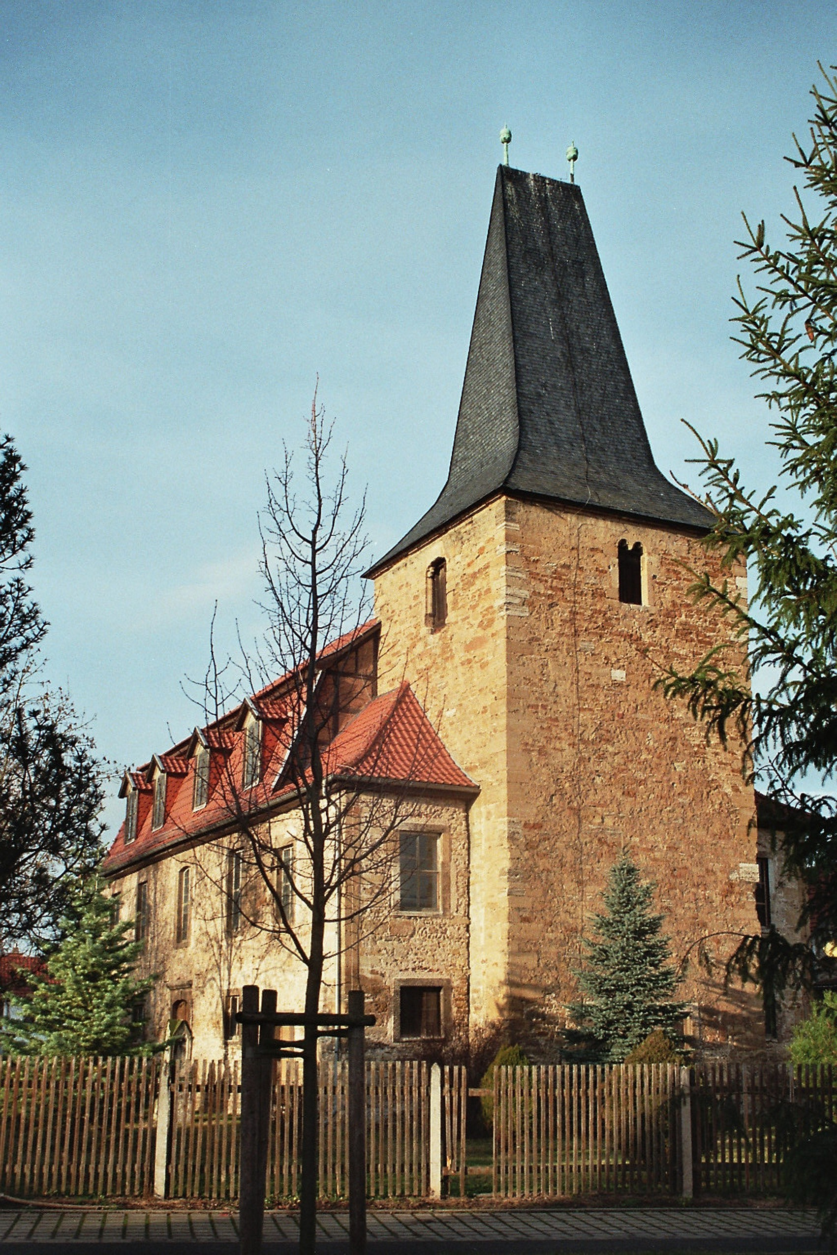 Körner (Thuringia), the Lower church